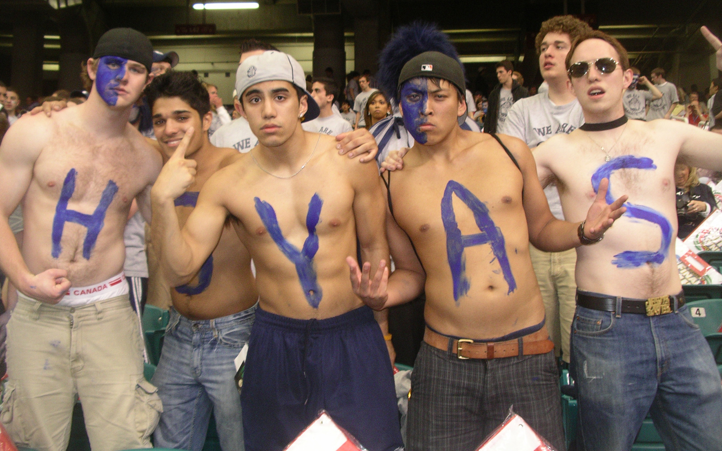 Georgetown University fans with painted chests in Atlanta for the 2007 Final Four game